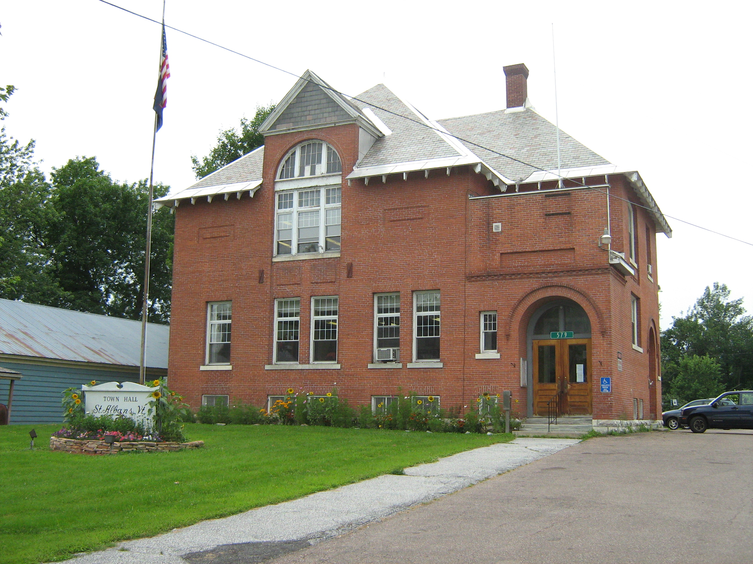 St. Albans Town Hall, St. Albans (Town), Vermont. Still functional Town Offices.